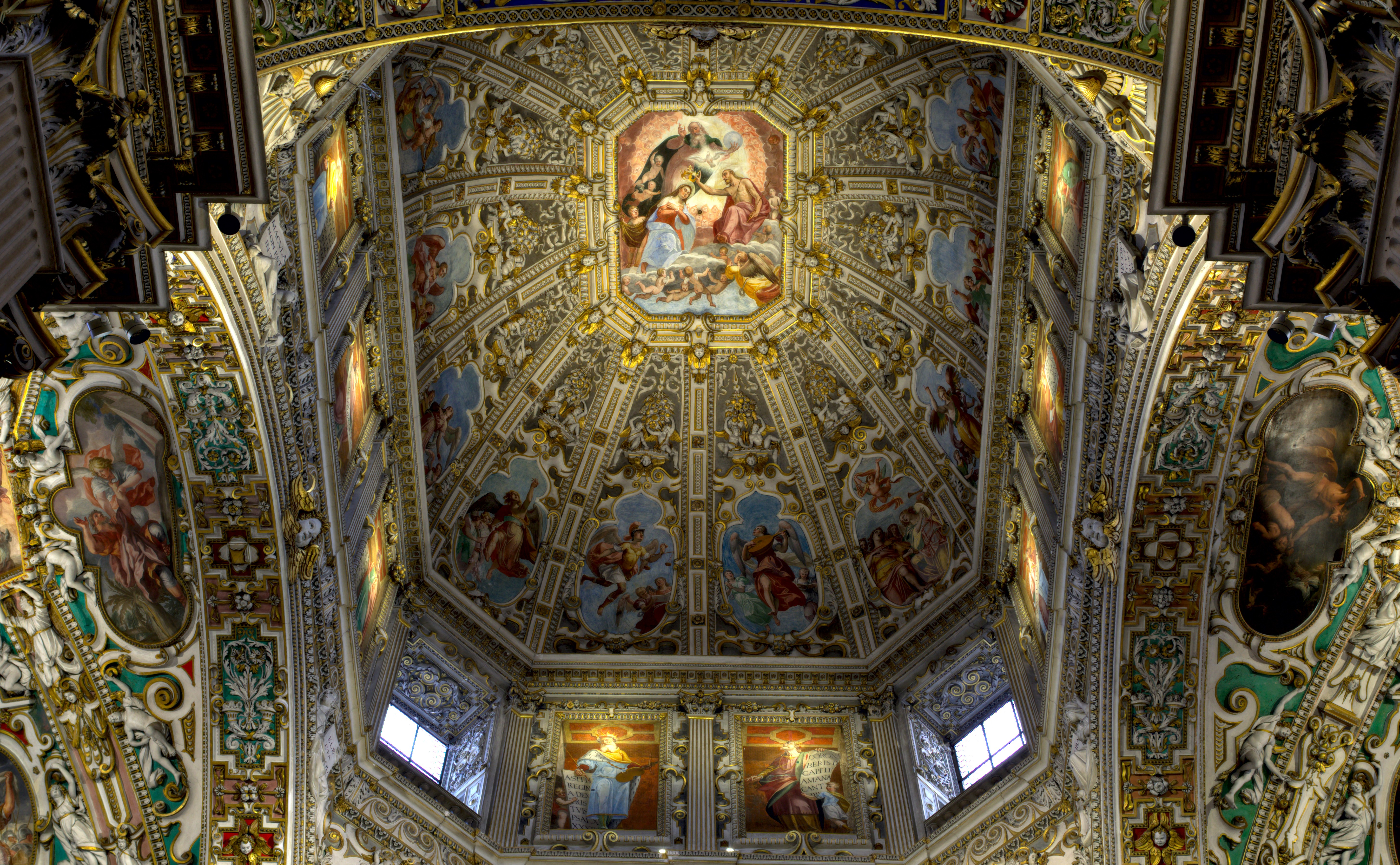 Dome interior of Santa Maria Maggiore, Bergamo